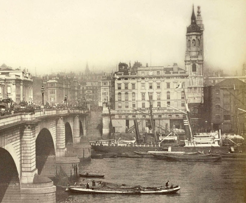 Extract from John Rennie’s 19th-century London Bridge. Albumen print 8 1/2 × 11 1/4 in. (21.59 × 28.575 cm). Transfer from the College of Architecture, Art and Planning